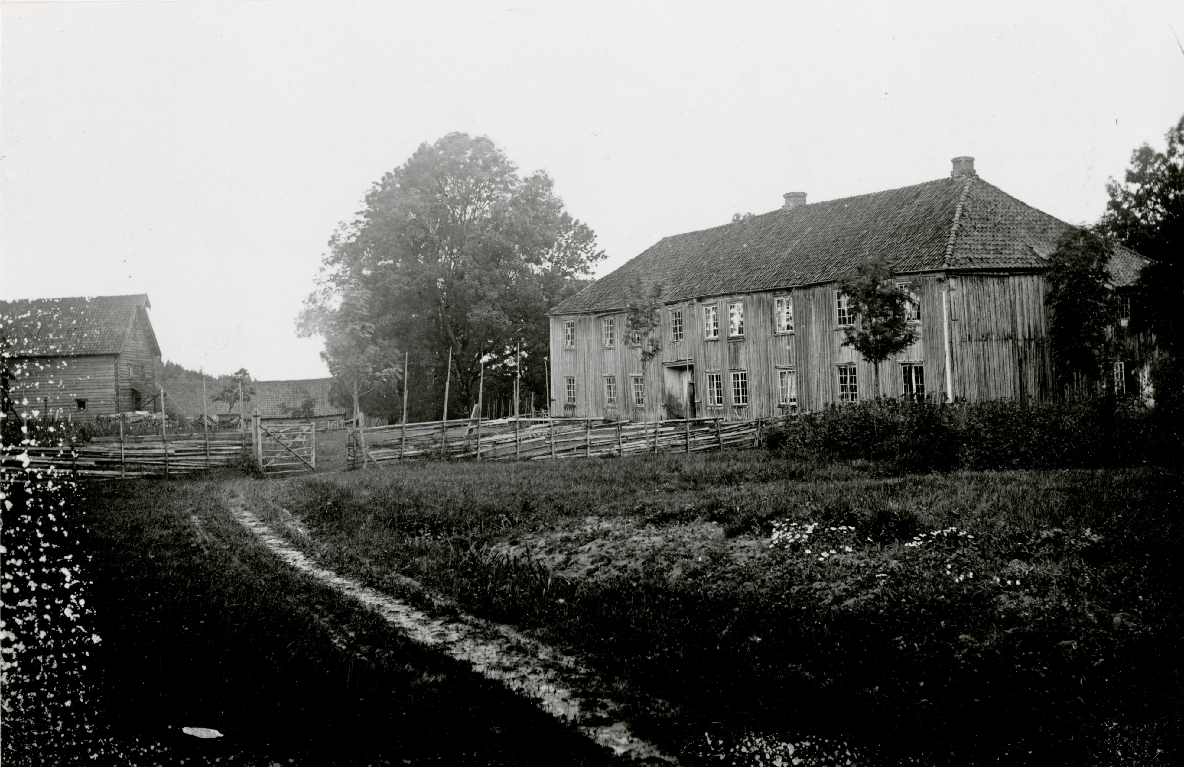 Tronstad in Hurum.